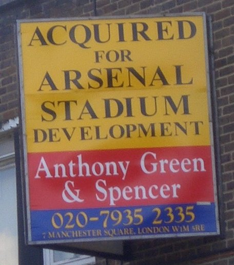 Acquired for Arsenal Stadium development.